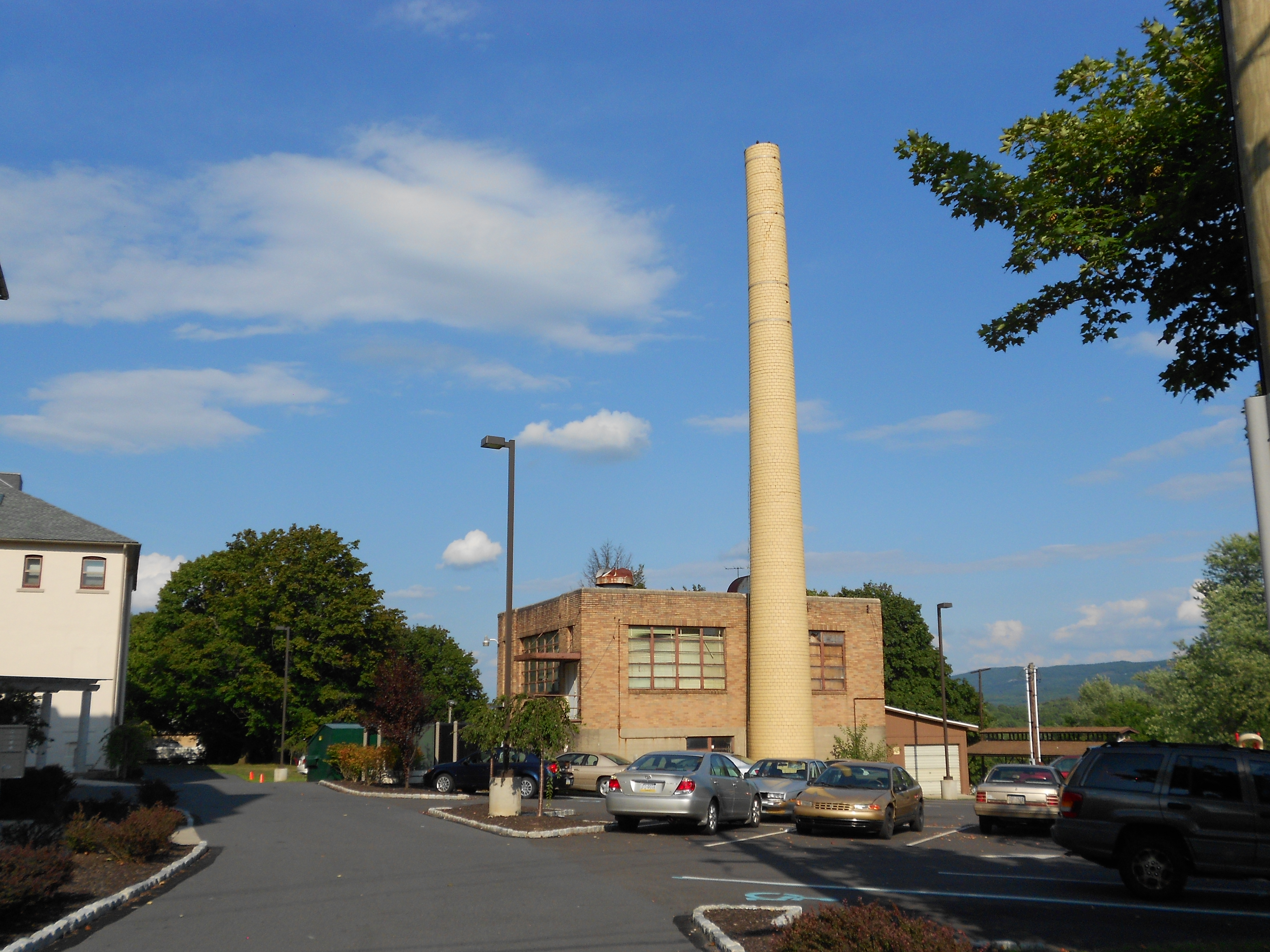 Heating plant at St. Stanislaus Institute, on the NRHP since December 30, 2008, at 141 Old Newport Street, Newport Township, Luzerne County, Pennsylvania. Just outside the small town of Nanticoke.